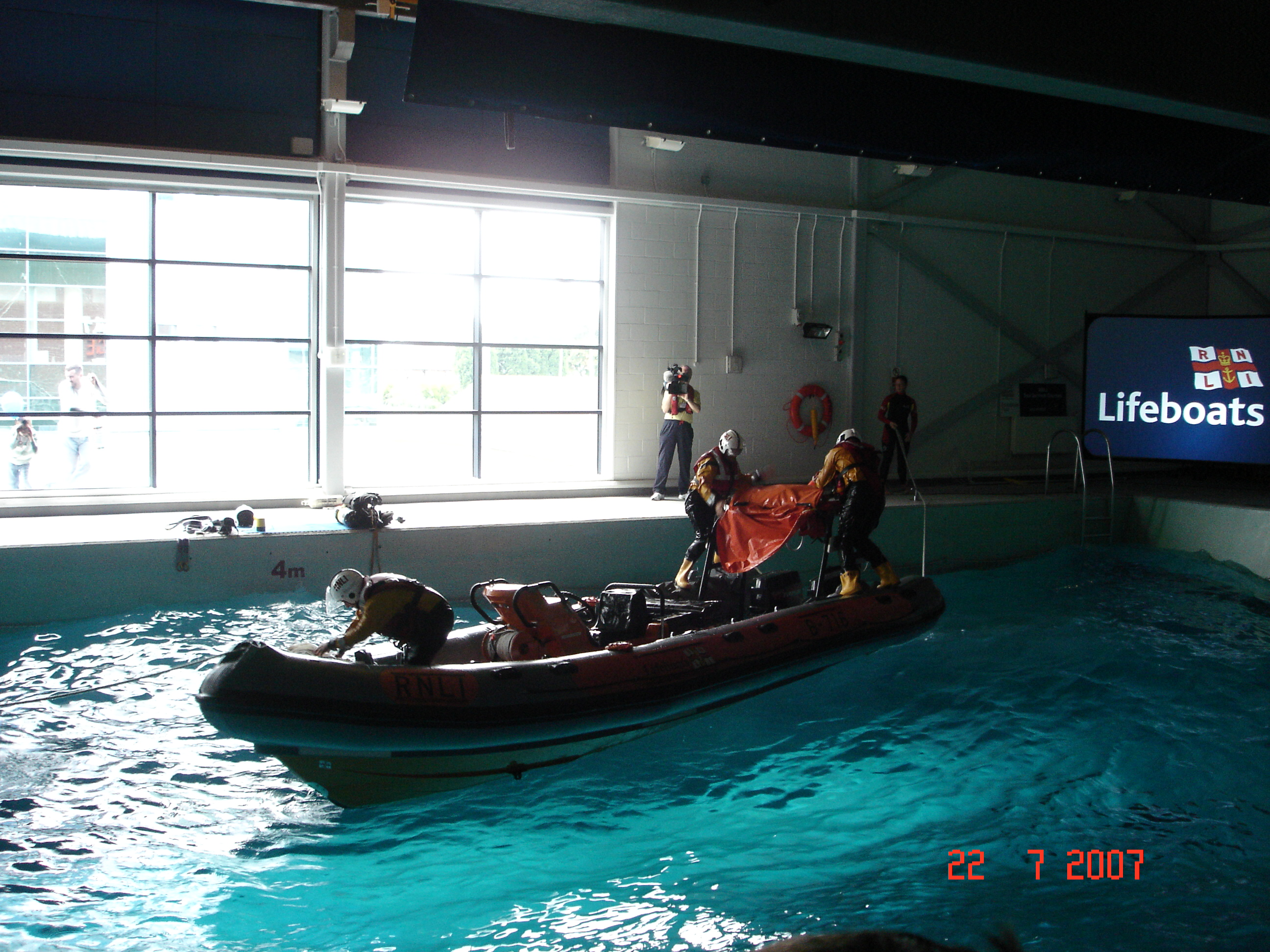 RNLI indoor capsize training at Poole Open Day